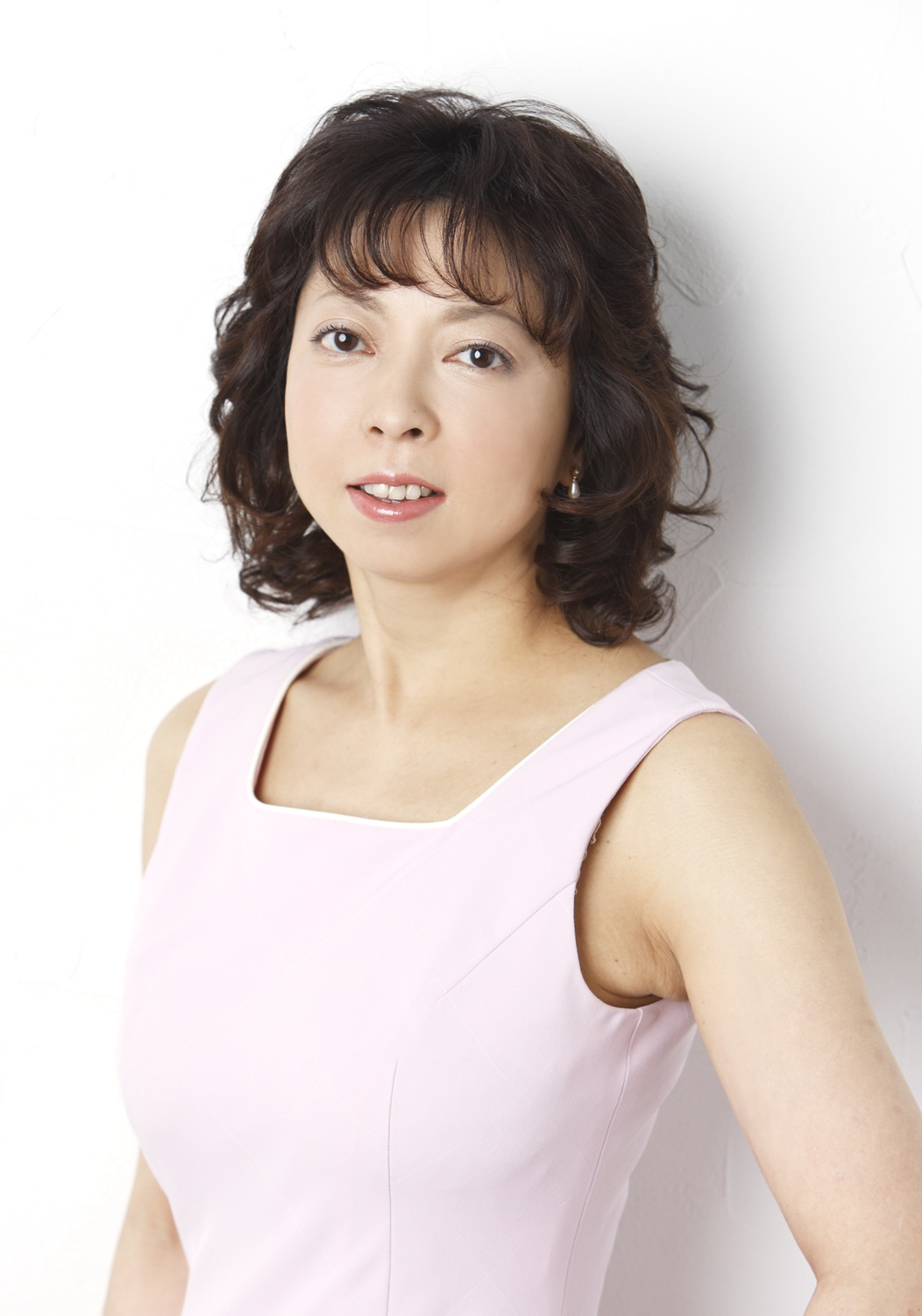 Portrait of Japanese composer Mari Takano